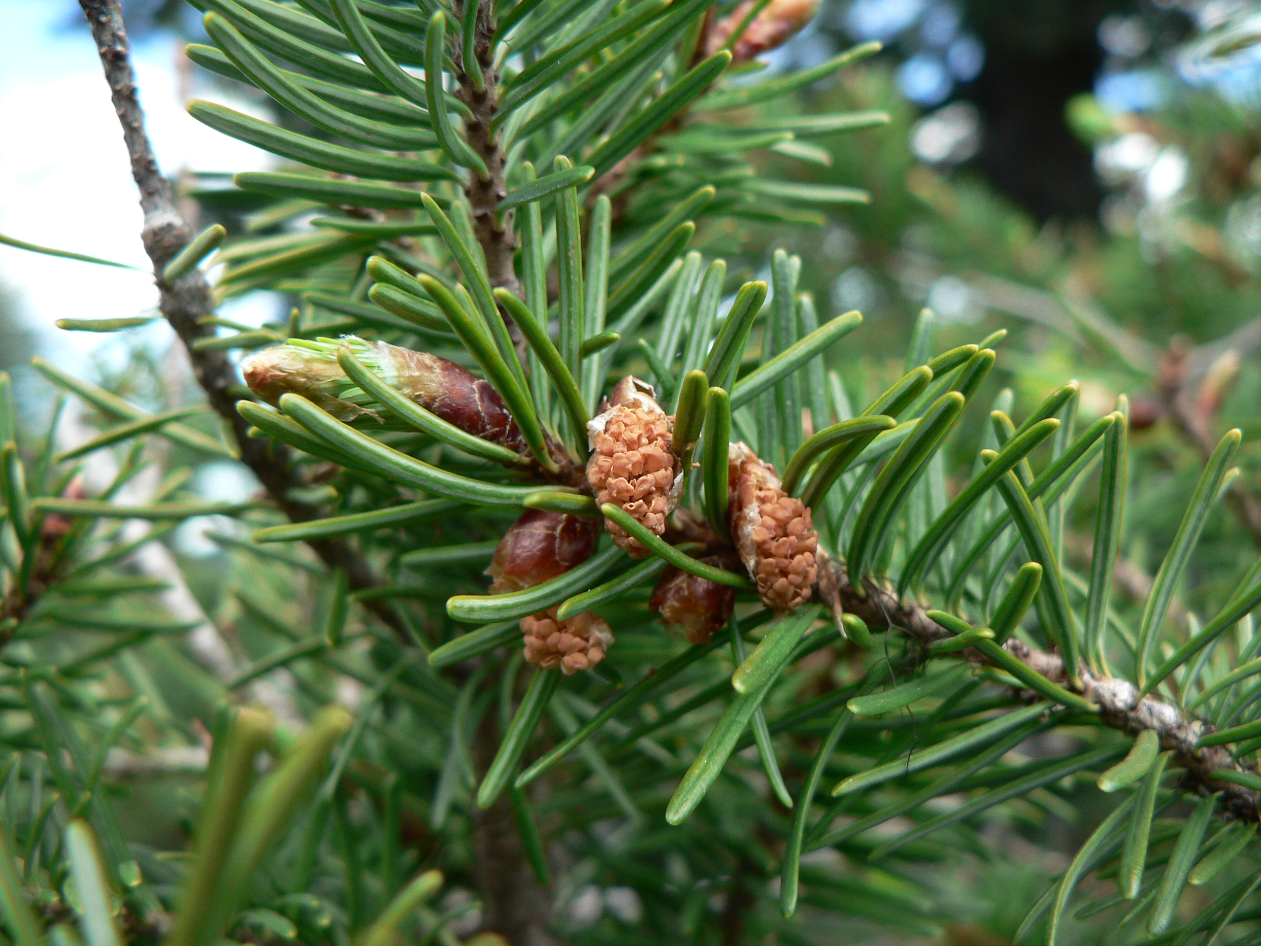 Coast Douglas-fir